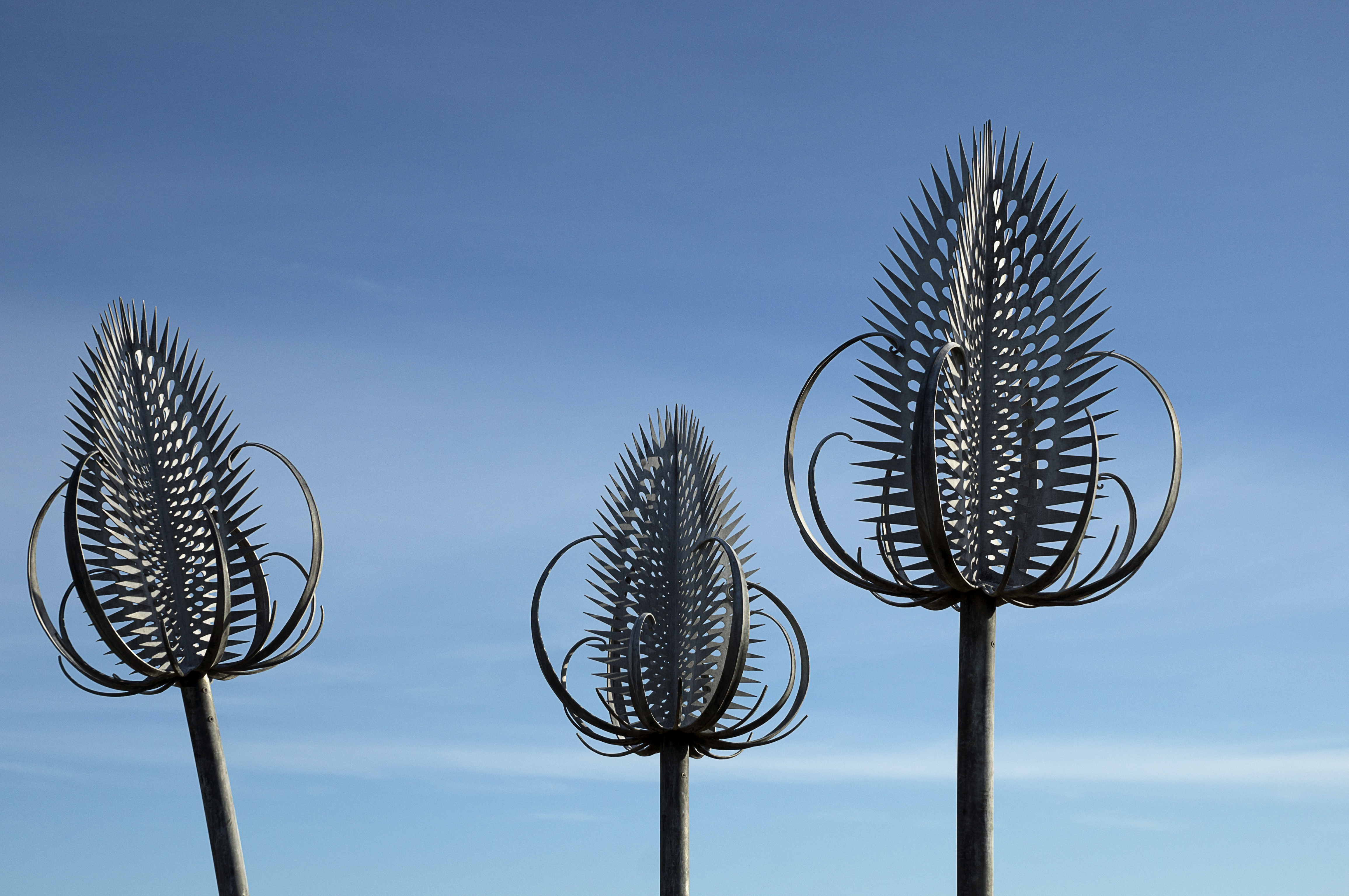 Muiravonside is in Falkirk. This parish takes its name from the river Avon, which divides the counties of Linlithgow and Stirling. Muiravonside contains Muiravonside Country Park which is 170 acres of woodland. It is situated in the south-east corner of the area of Falkirk. This picture MAY have been taken in or near the park. This description was supposed/added later.